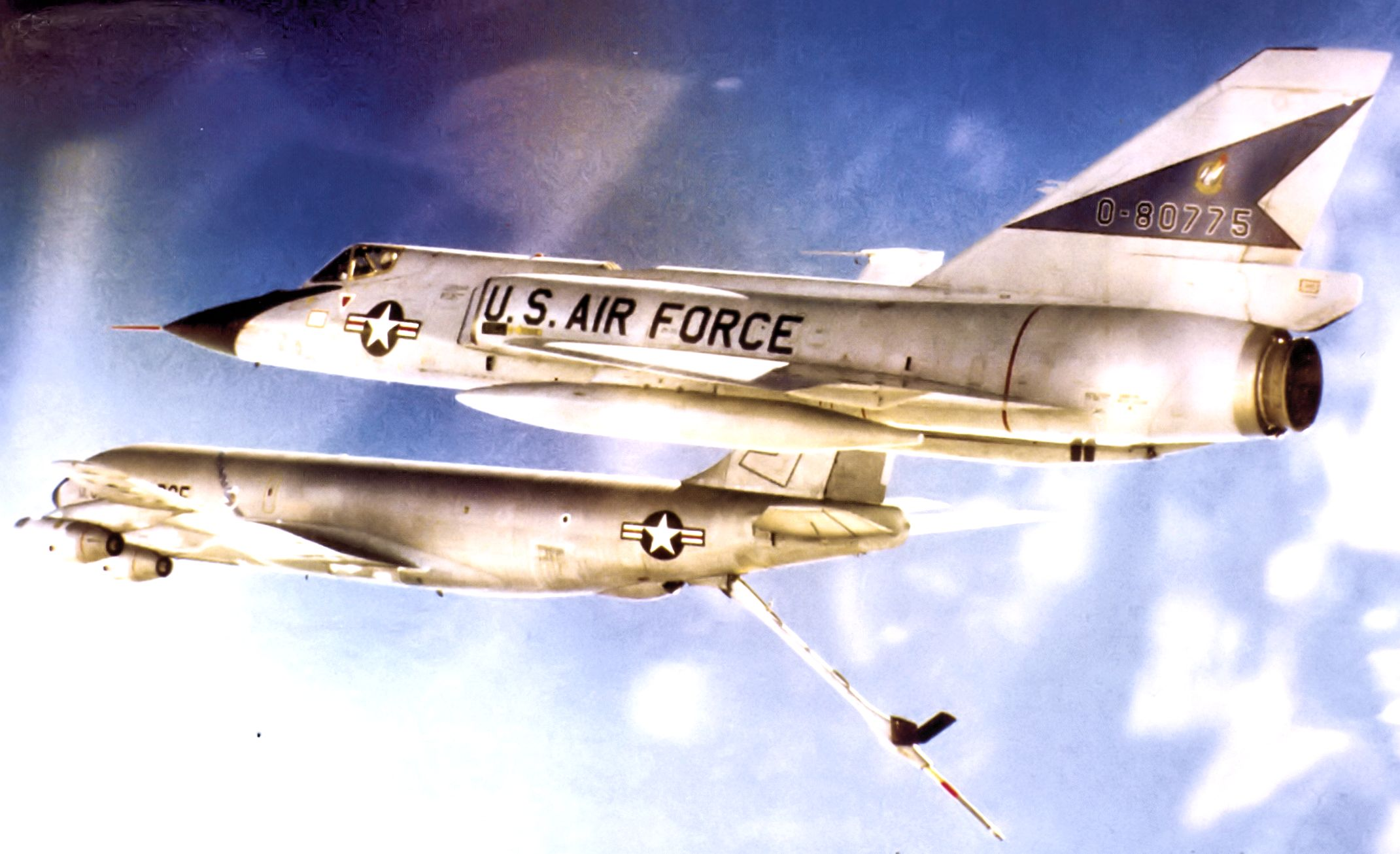 71st Fighter-Interceptor Squadron Convair F-106A-100-CO Delta Dart 58-0775 with a SAC KC-135A, 1970. Aircraft was retired to AMARC as FN0114 Jan 22, 1987. To QF-106 (AD138). Shot down by AIM-120 Oct 20, 1992.